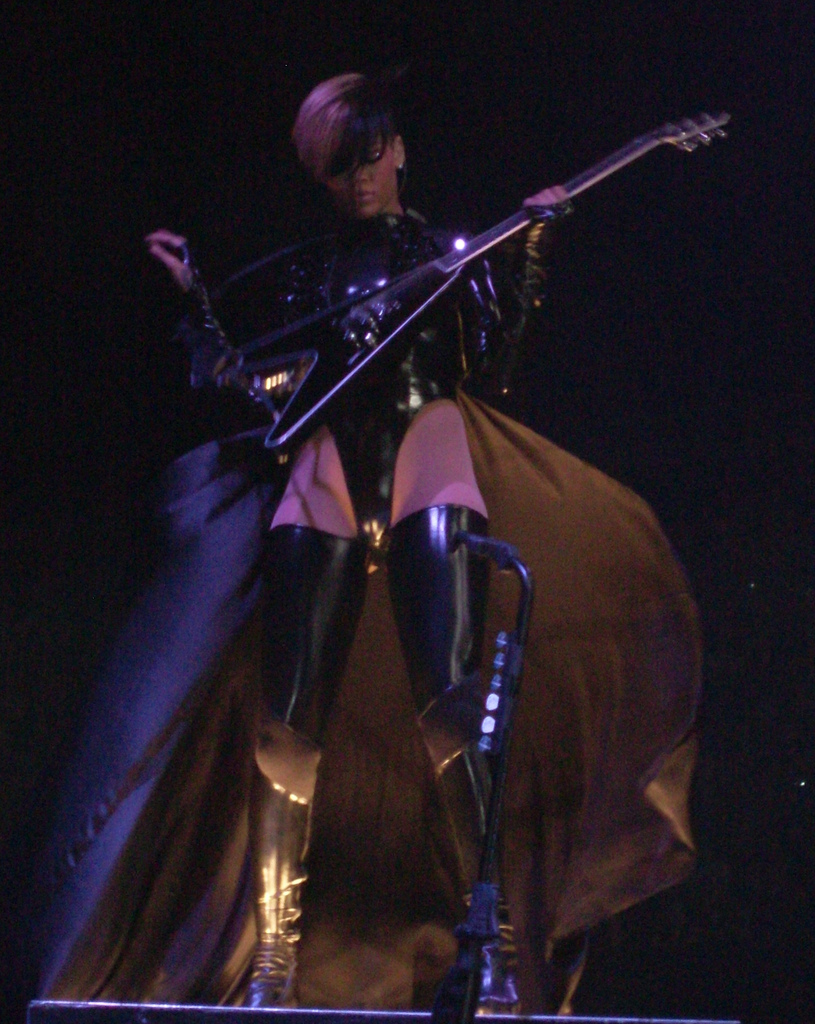 Rihanna in her Last Girl on Earth Tour